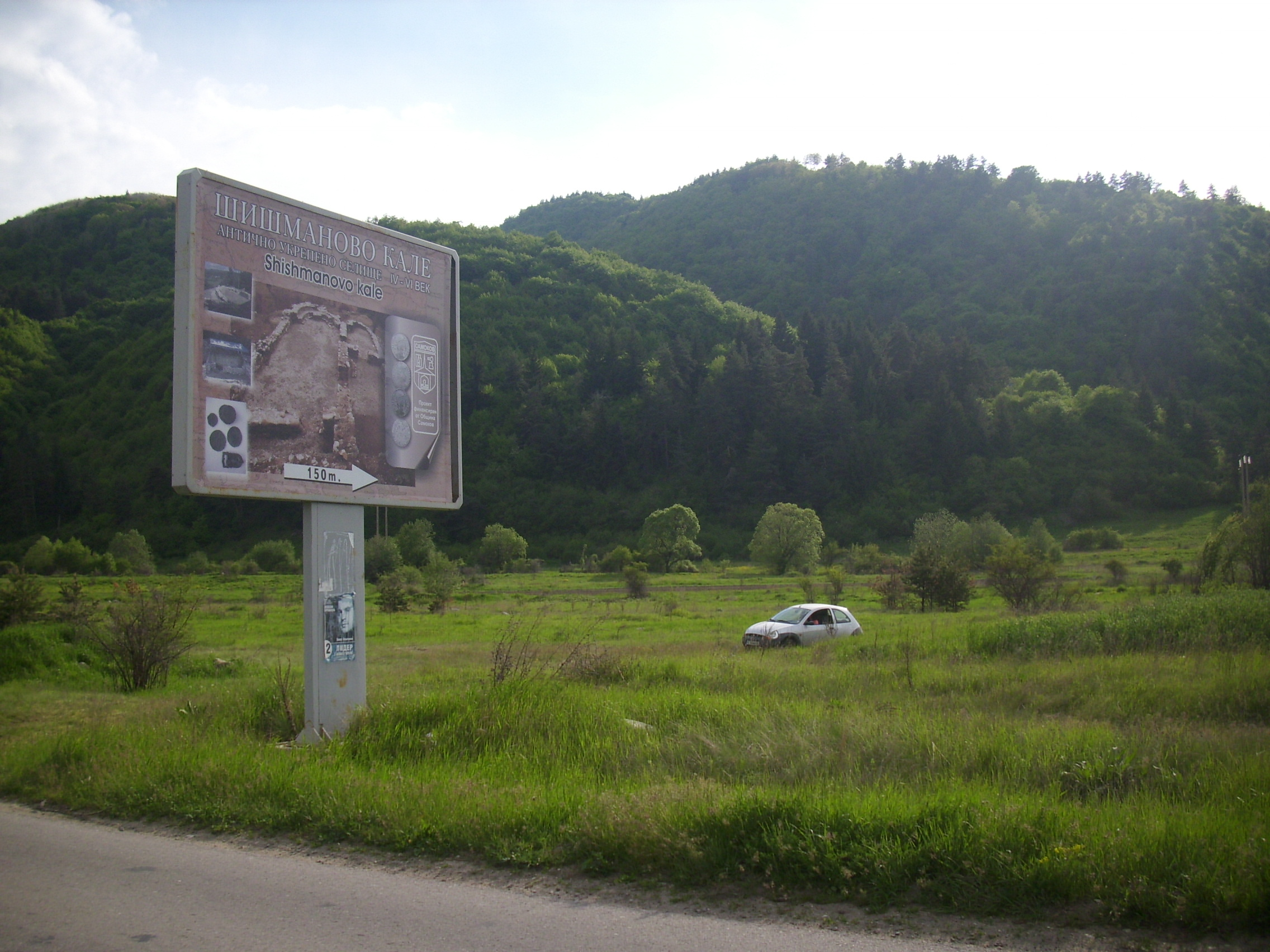 Tzar Shishman of Bulgaria fortress near Samokov